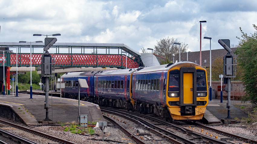 One car of GWT 158 960 attached to a 2-car unit passing St Denys Station in 2012